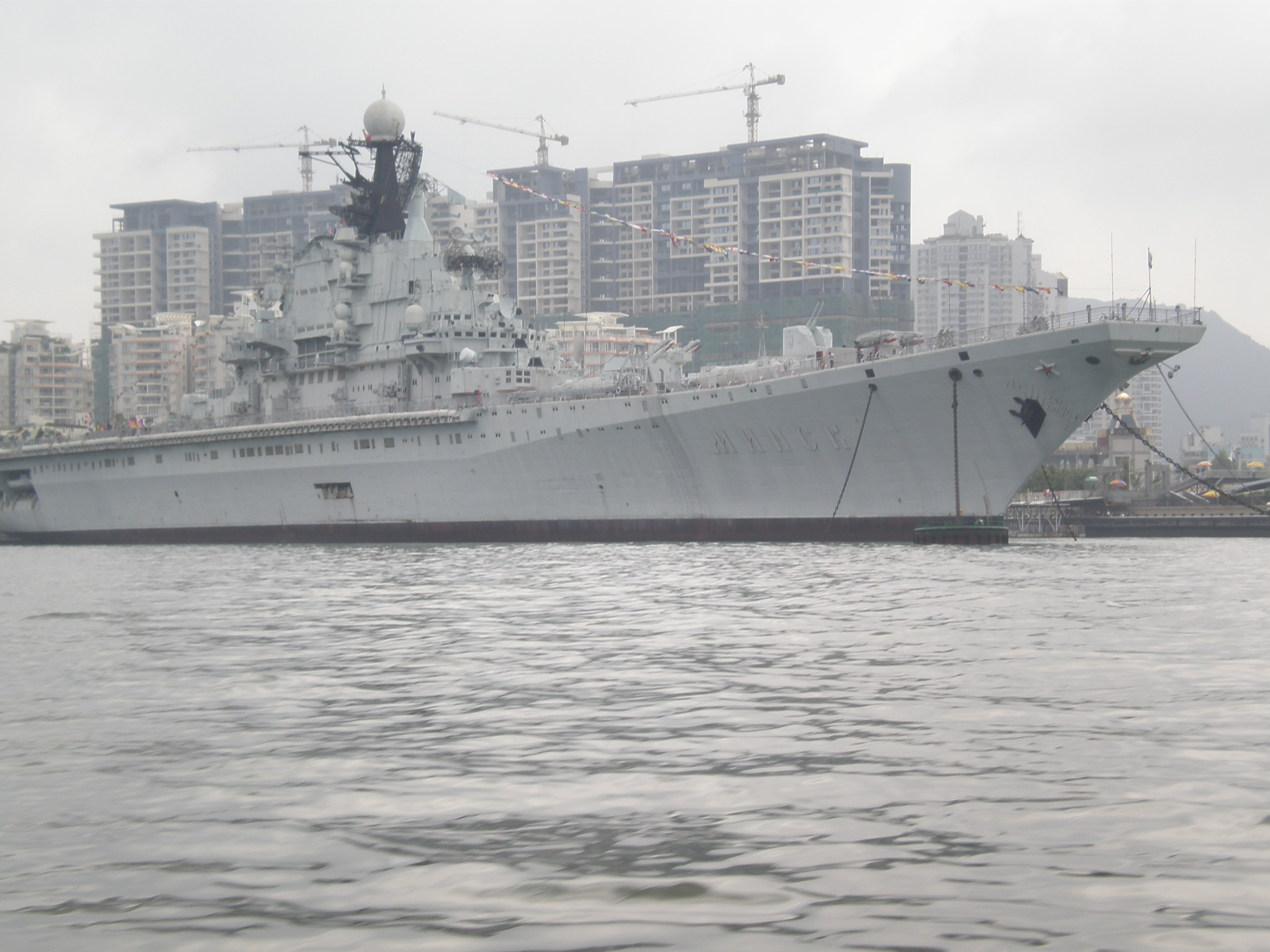 The starboard side of the former Soviet aircraft carrier Minsk moored in Shenzhen, China, as seen from a motorboat that can be rented for a 5 minute cruise around the starboard and bow of the Minsk. The Minsk is the centerpiece of the Minsk World military theme park.